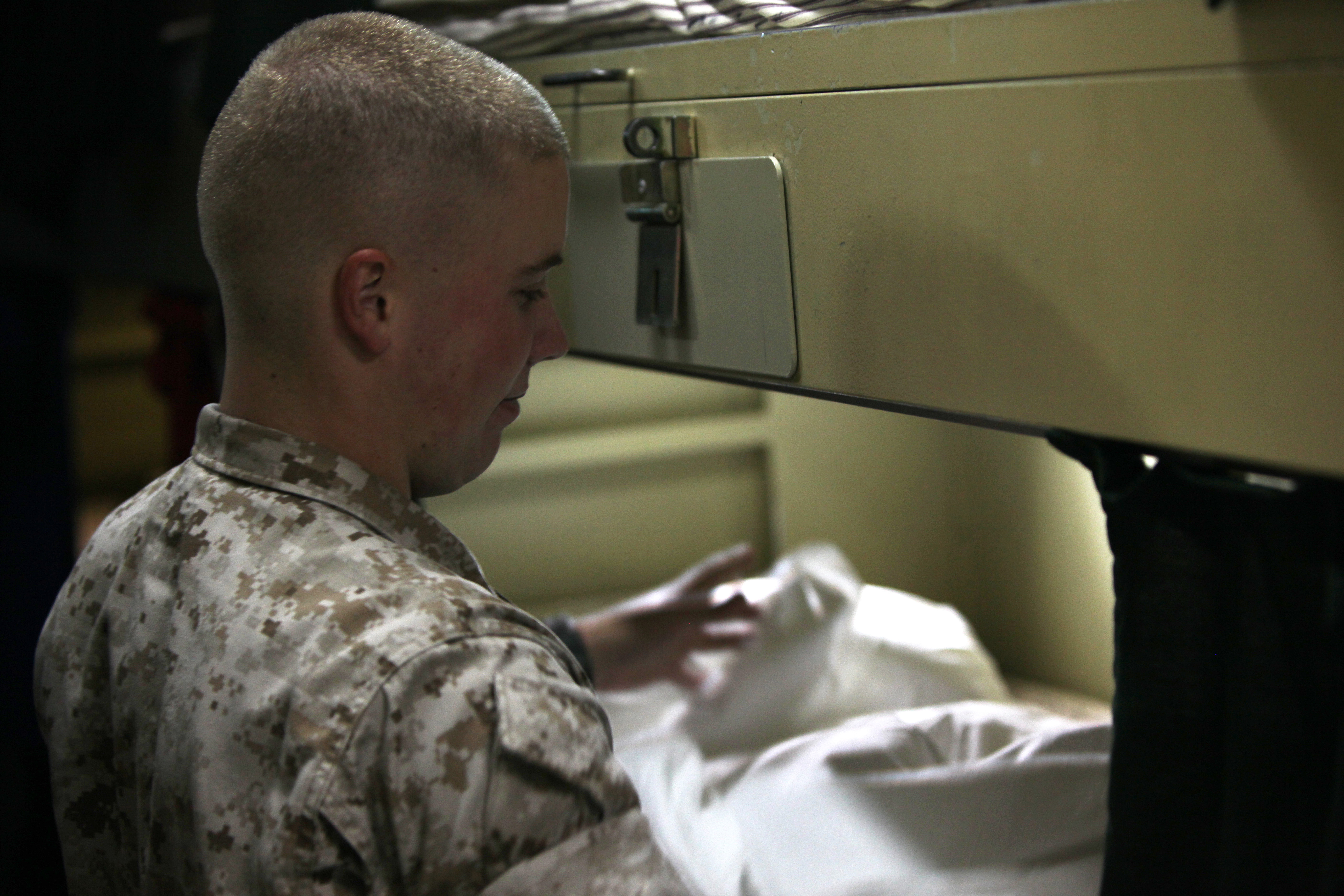 Butch Cut Marine, 1st Marine Expeditionary Brigade, makes his rack on USS Bonhomme Richard, Sept. 27, 2011. Original caption: "Lance Cpl. William A. Black, a Marine Air Ground Task Force planner with Marine Aircraft Group 16, makes his rack shortly after arriving on the USS Bonhomme Richard at Naval Base San Diego, Sept. 27. More than 700 Marines and sailors are participating in Exercise Dawn Blitz 2011, an exercise that will test 1st Marine Expeditionary Brigade's capabilities to plan and execute amphibious landings."